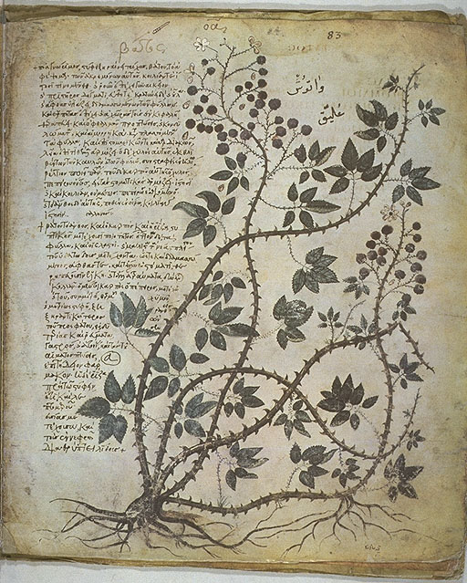 Illustration form the Vienna Dioscurides.